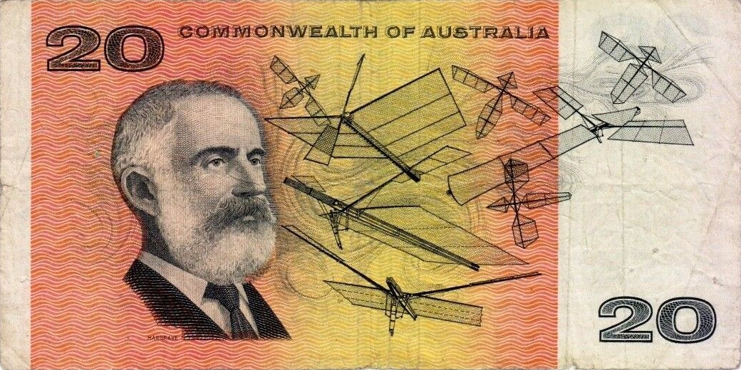 AU 20 Coombs-Wilson Reverse